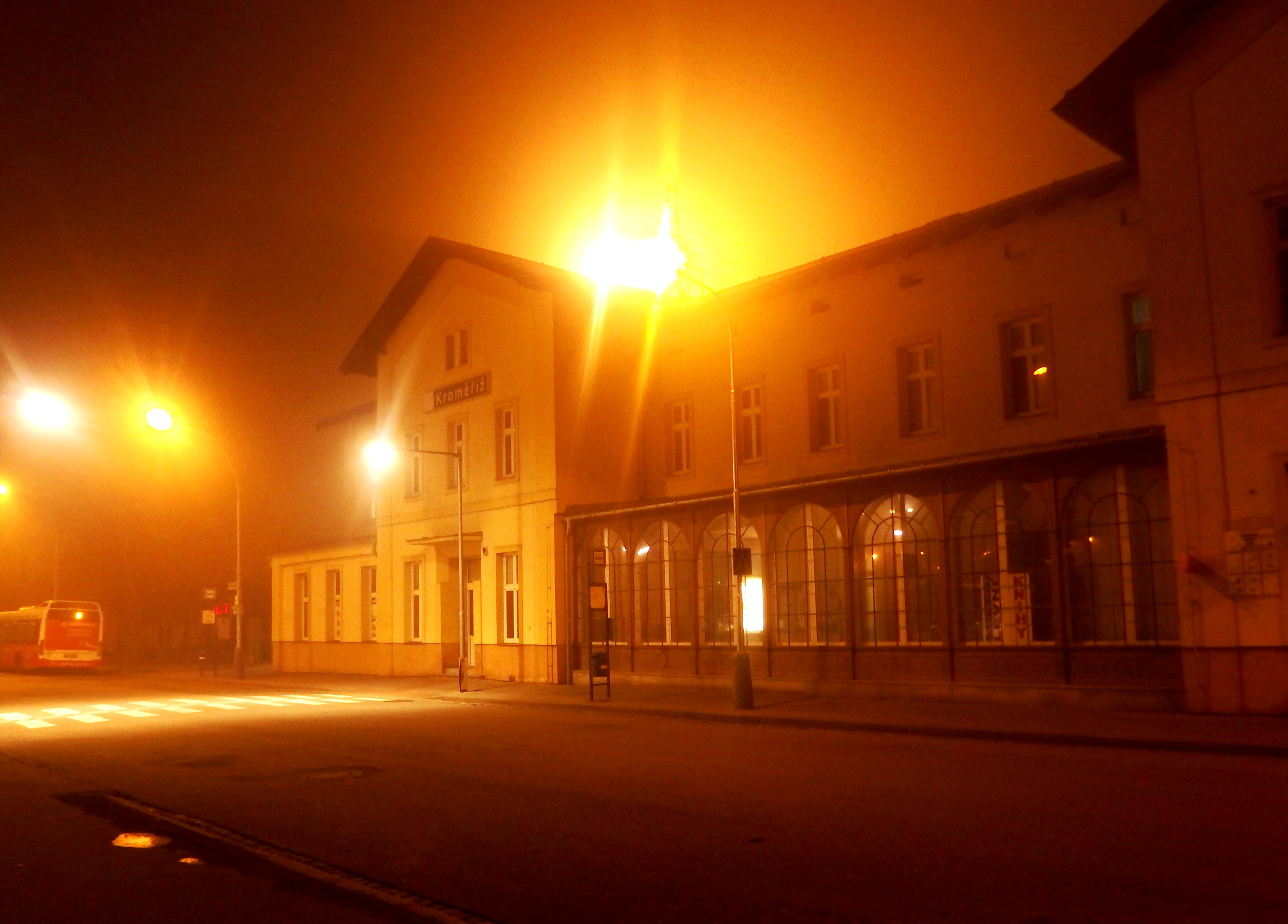 Kroměříž, Czech Republic. Train station.